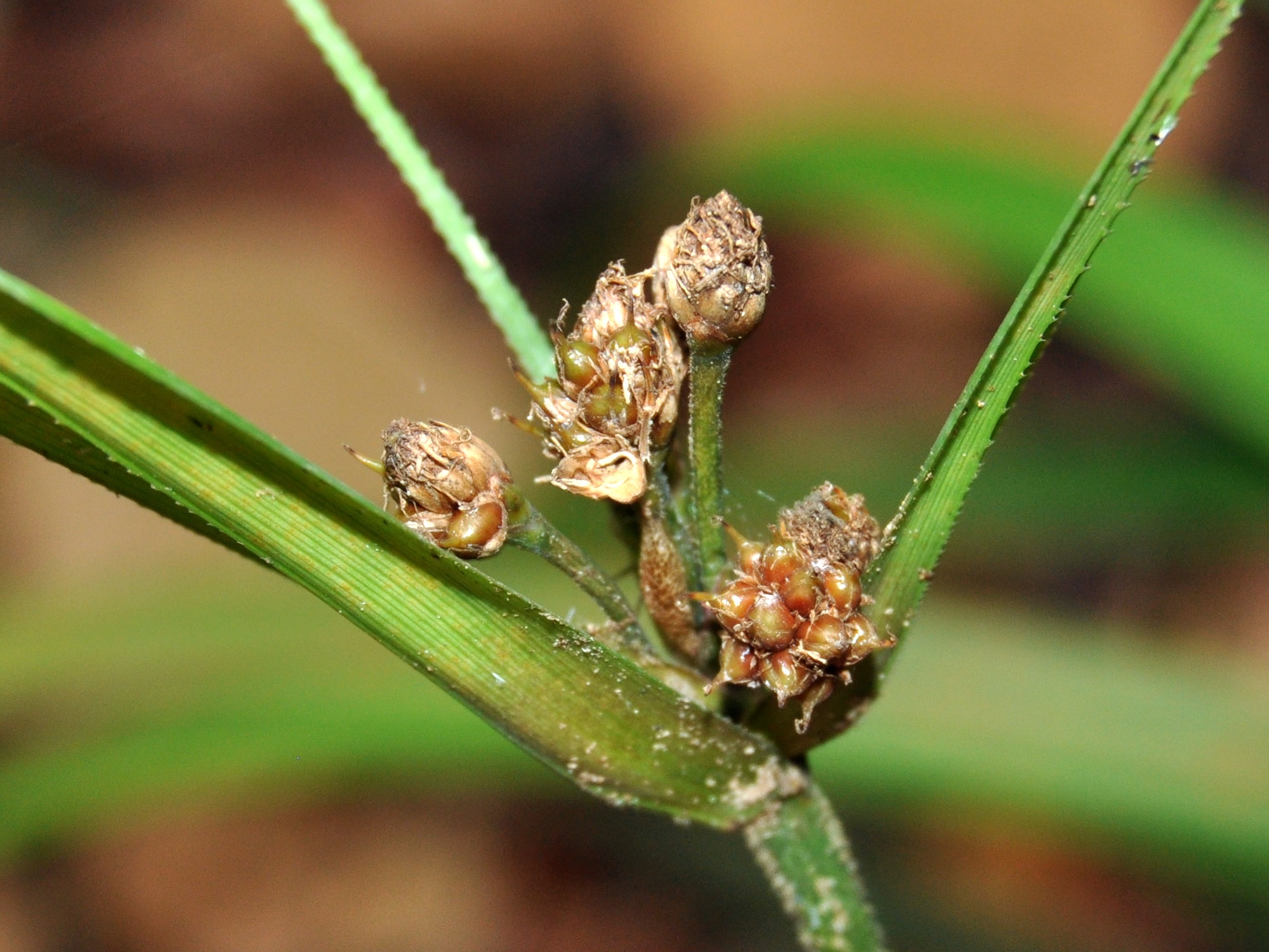 Hypolytrum nemorum, infructescens close-up. From Rokan Hilir, Riau, Indonesia.